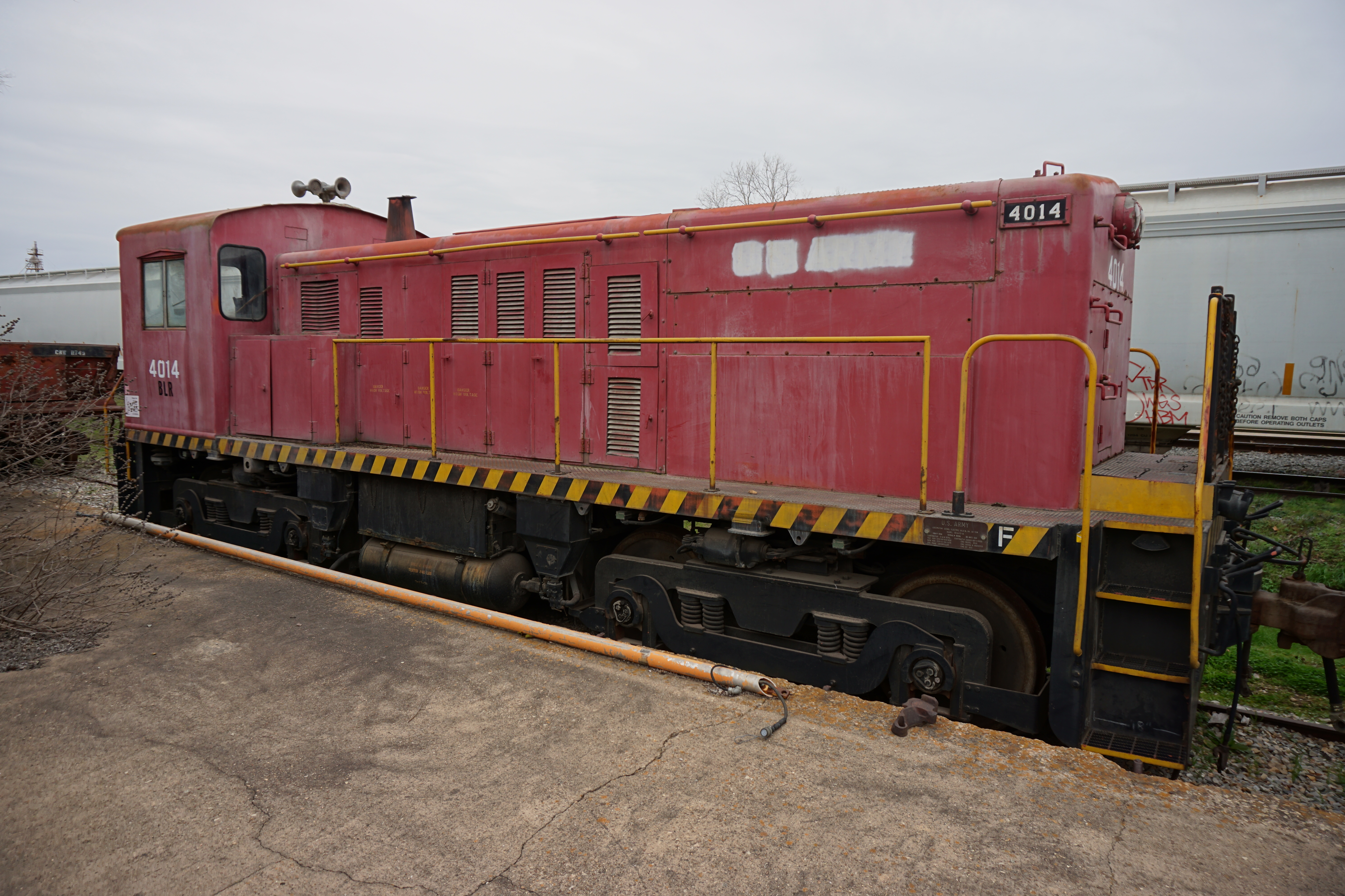 Blacklands Railroad Baldwin RS-4-TC #4014 in Sulphur Springs, Texas (United States).